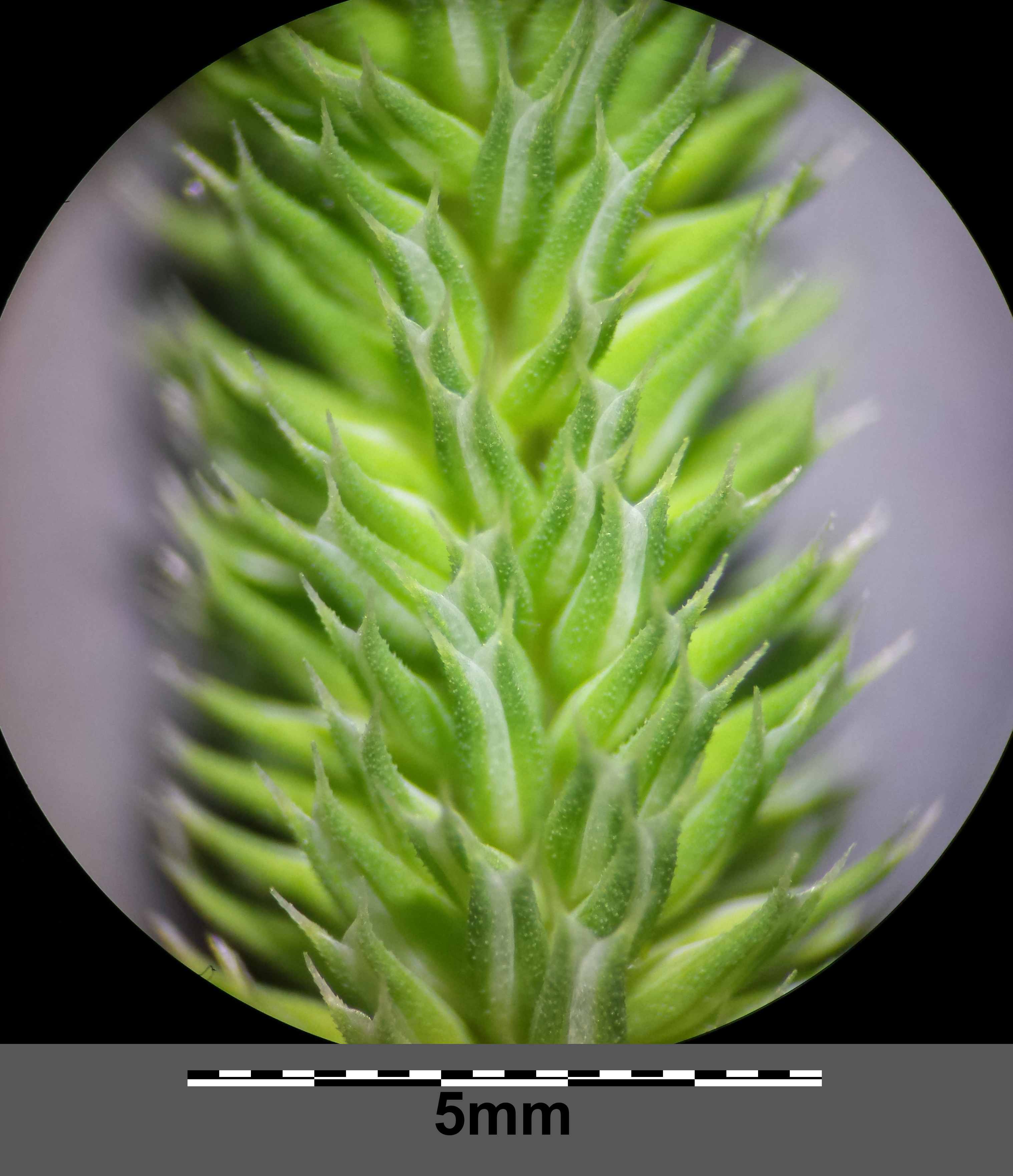 Panicle (detail) Taxonym: Phleum phleoides ss Fischer et al. EfÖLS 2008 ISBN 978-3-85474-187-9 Location: Waldberg in between Kleinebersdorf und Großrußbach, district Korneuburg, Lower Austria - ca. 334 m a.s.l. Habitat: semi-dry grassland